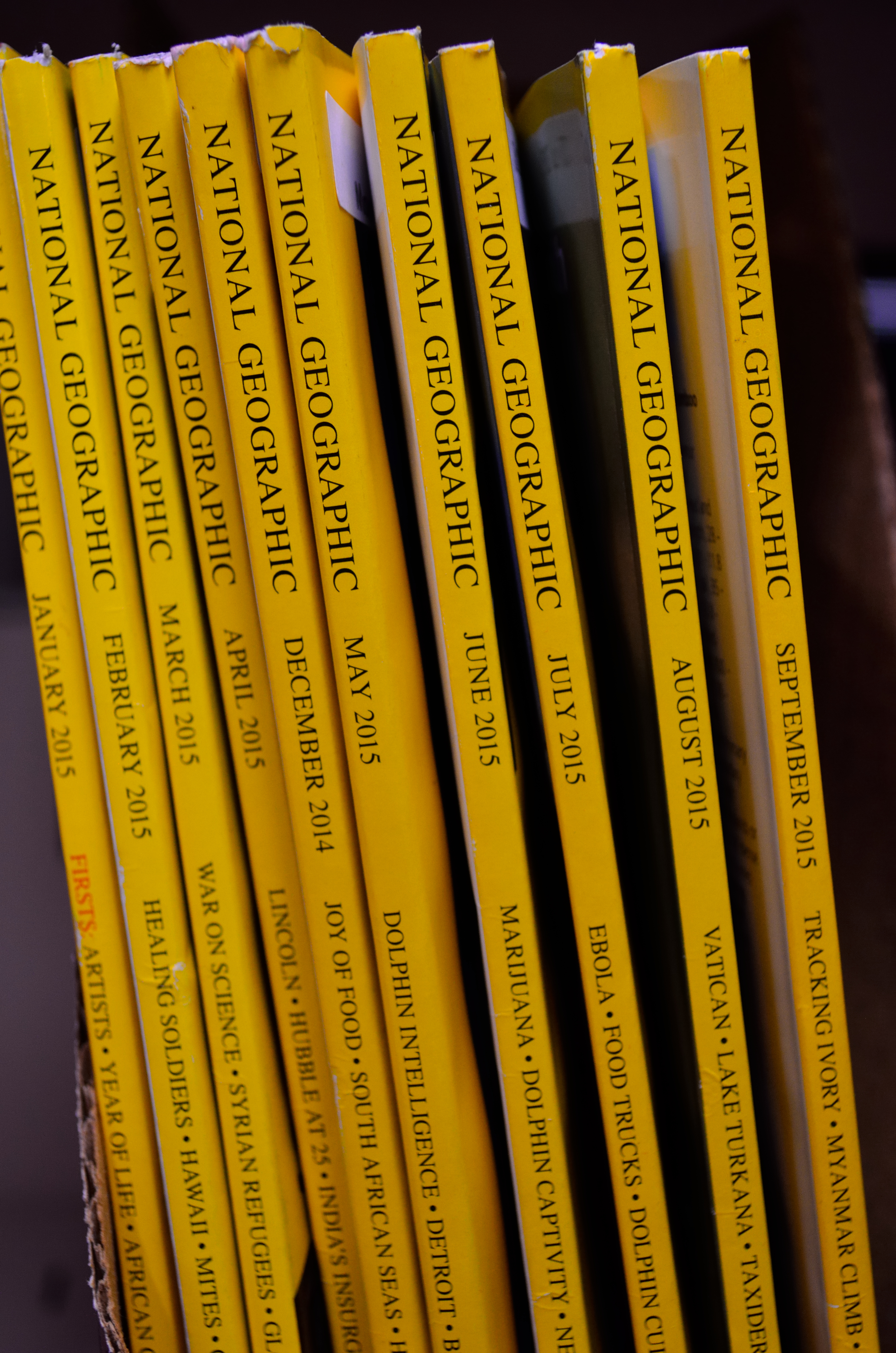 National Geographic in a library